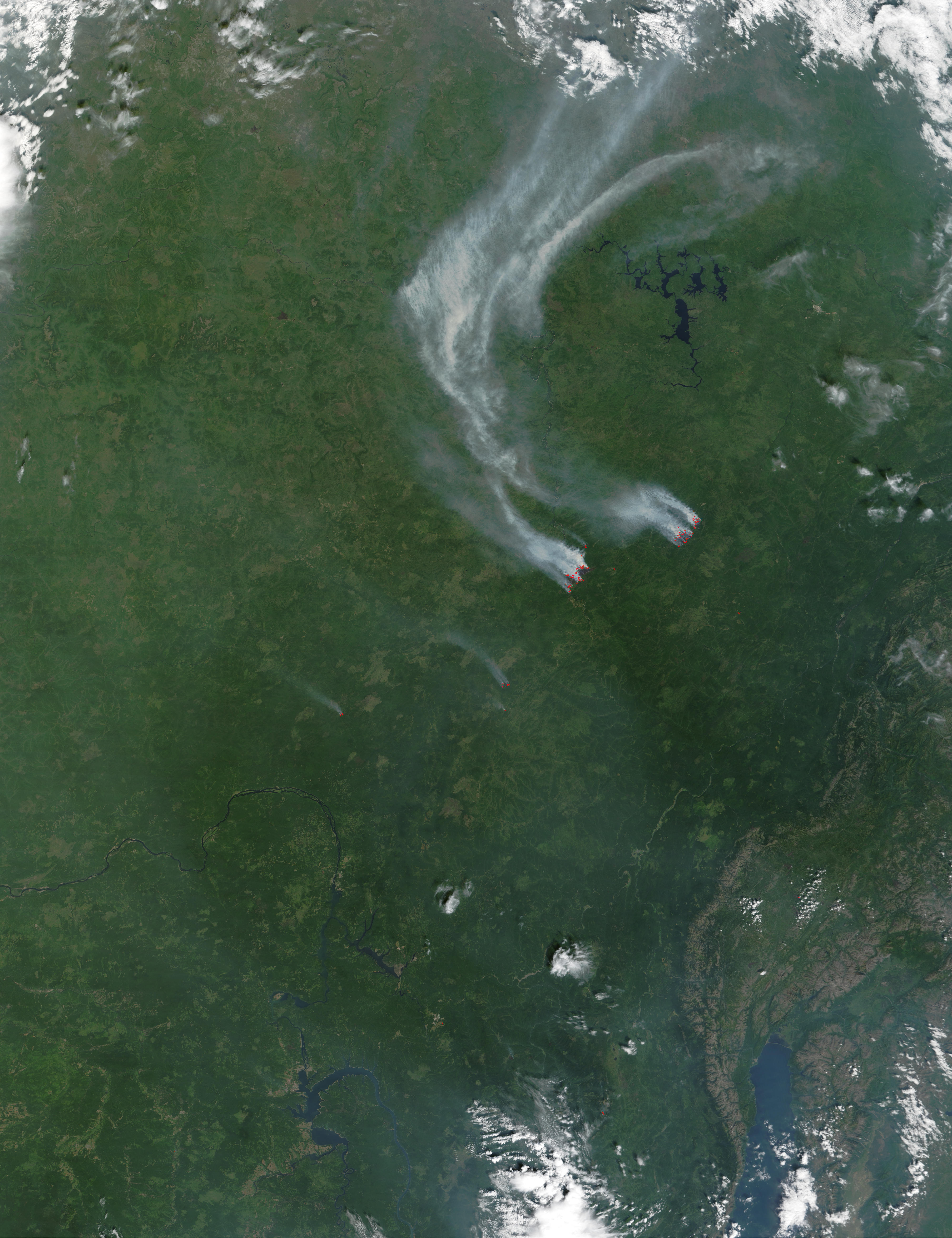 Fires and smoke north of Lake Baikal. Several large fires (red dots) burning in Siberia, north of Lake Baikal (bottom right). West of Baikal, a horseshoe-bend in the Angara River is visible. Sensor Terra/MODIS Visible Earth v1 ID 21177